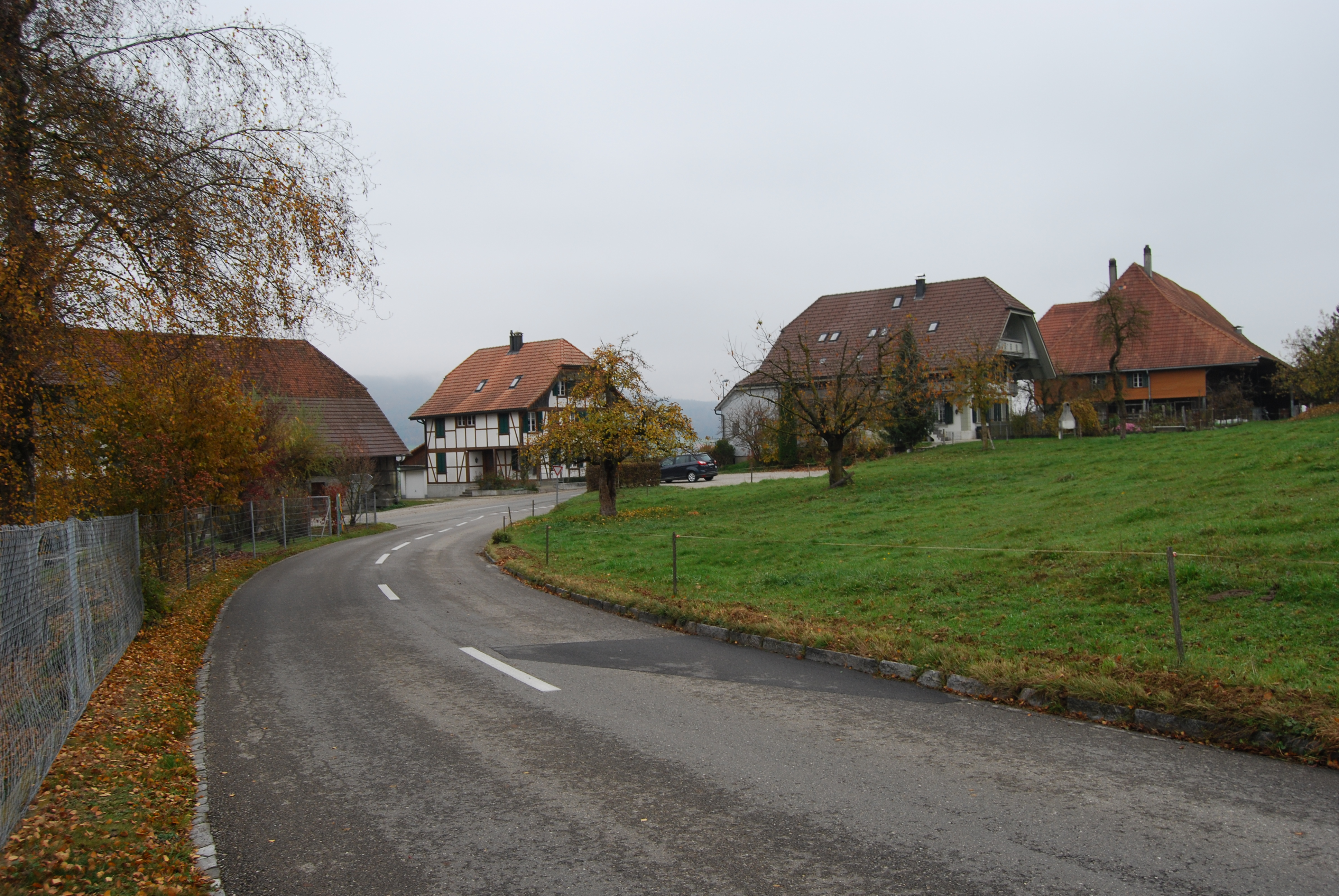 Mülchi, canton of Bern, SwitzerlandEsperanto: Mülchi, Kantono Berno, Svislando